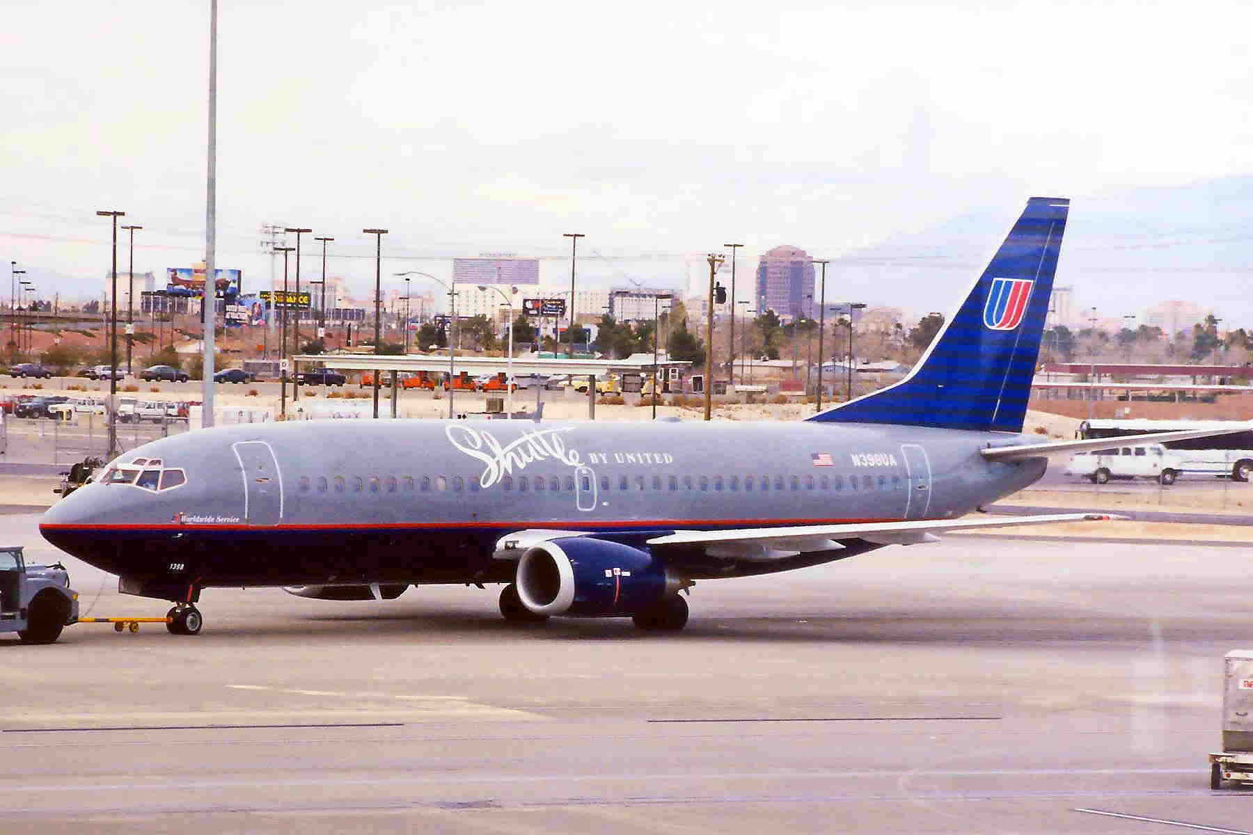 A picture of an airplane